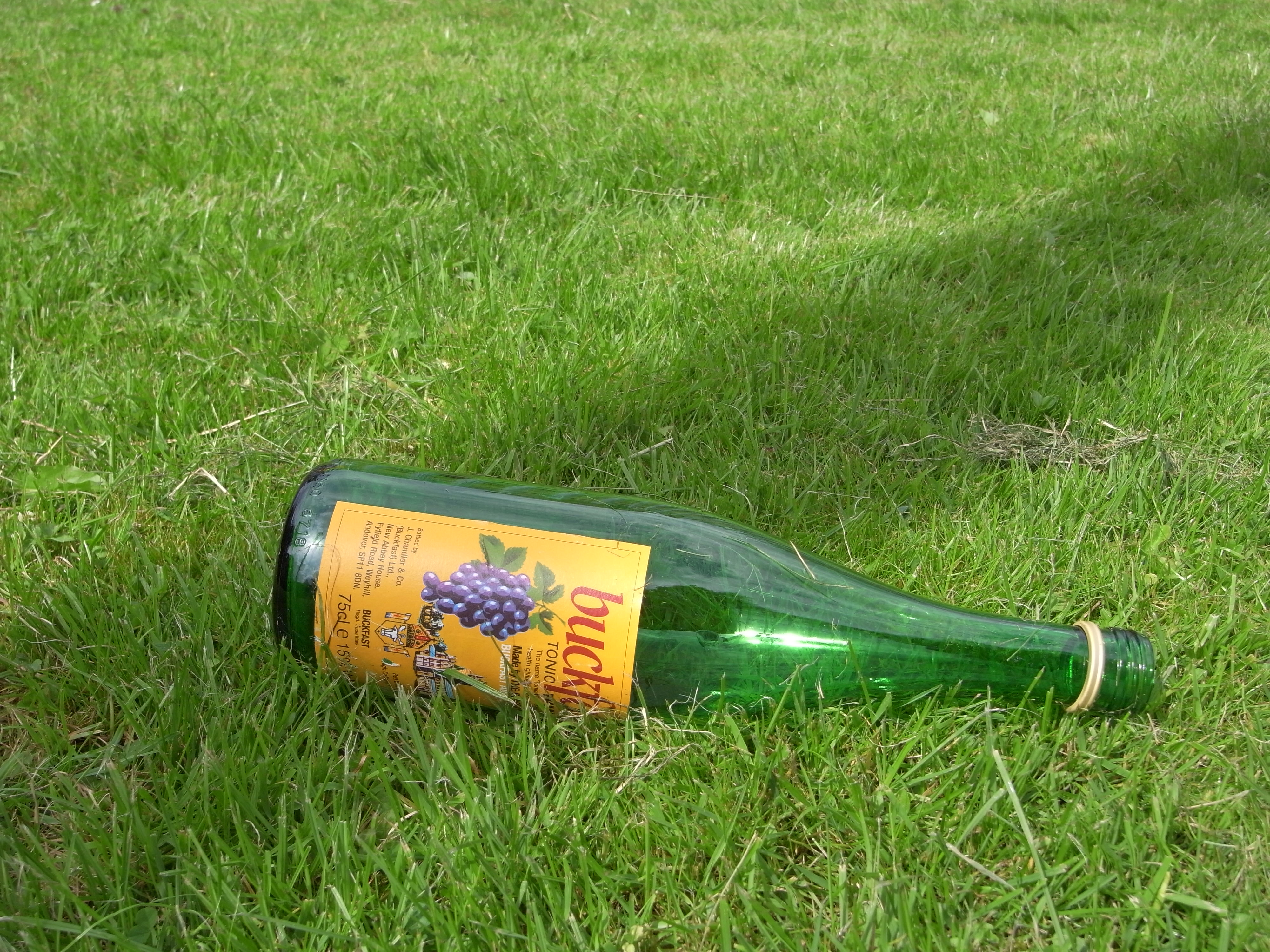 Photo of empty Buckfast Tonic Wine bottle in Elder Park,Govan,Glasgow.